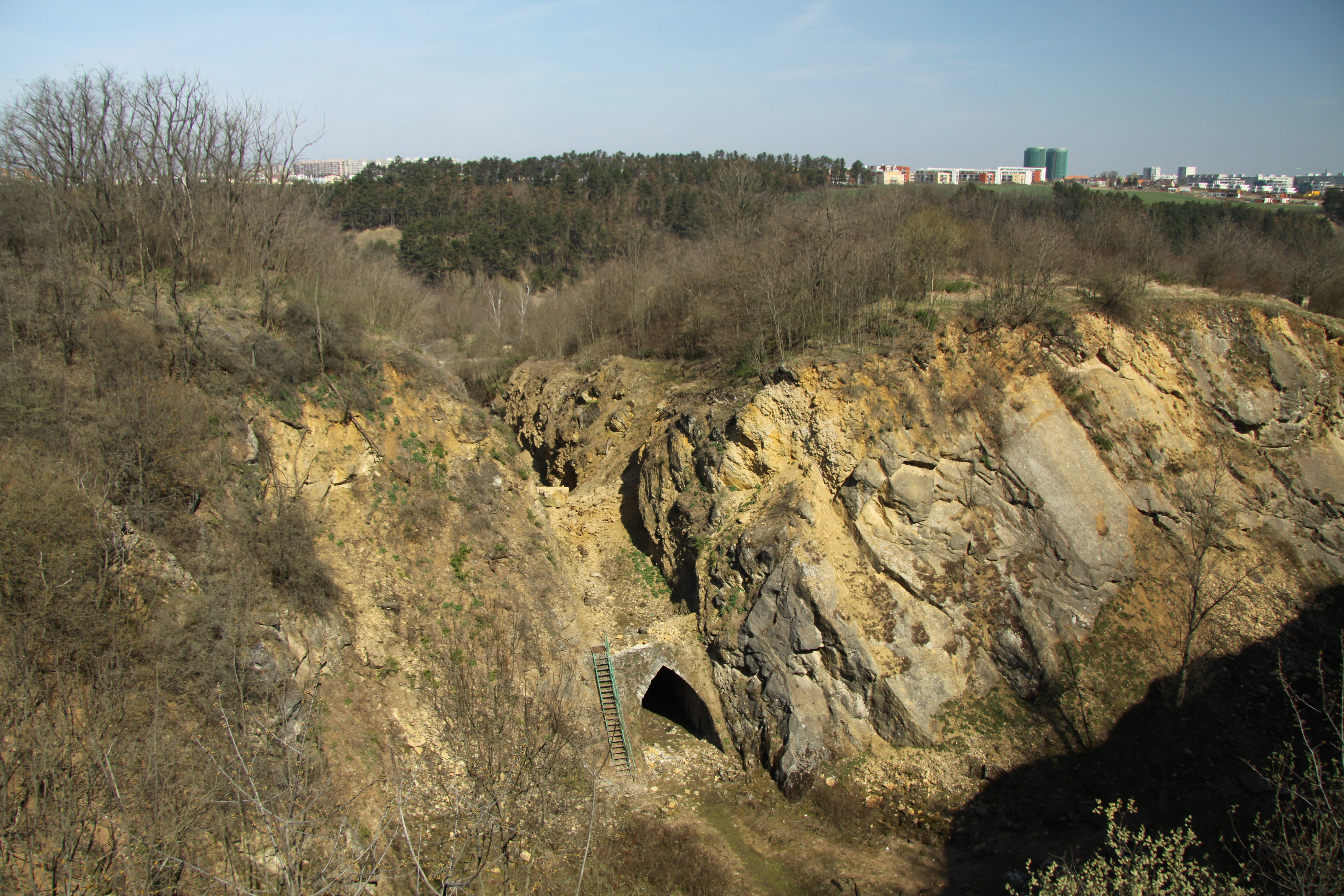 National natural monument Požáry in Řeporyje, spring 2011, Prague, Czech Republic